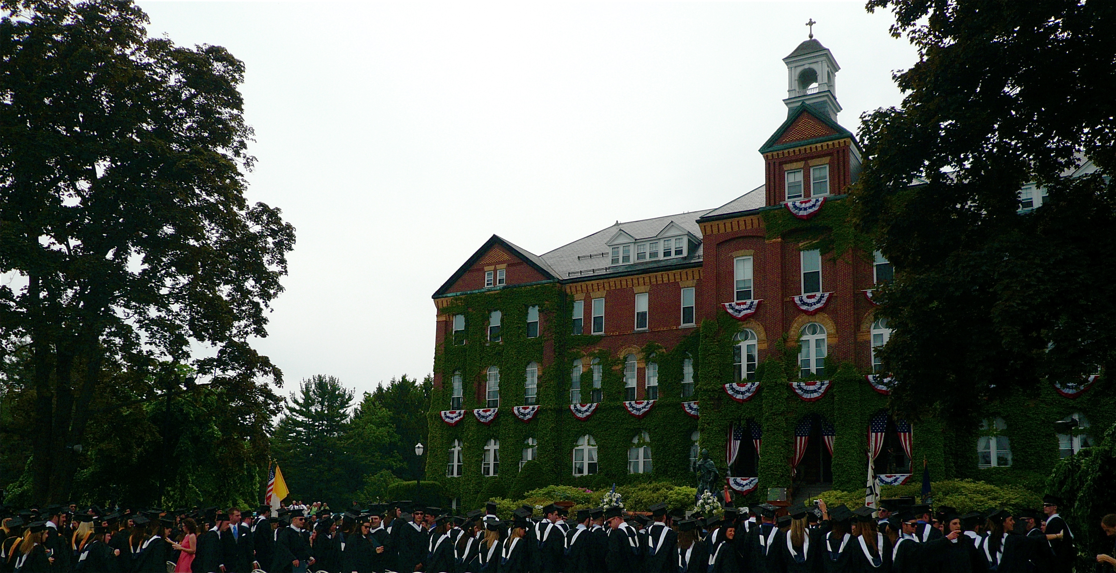 Saint Anselm College Graduates assemble in front of Alumni Hall.